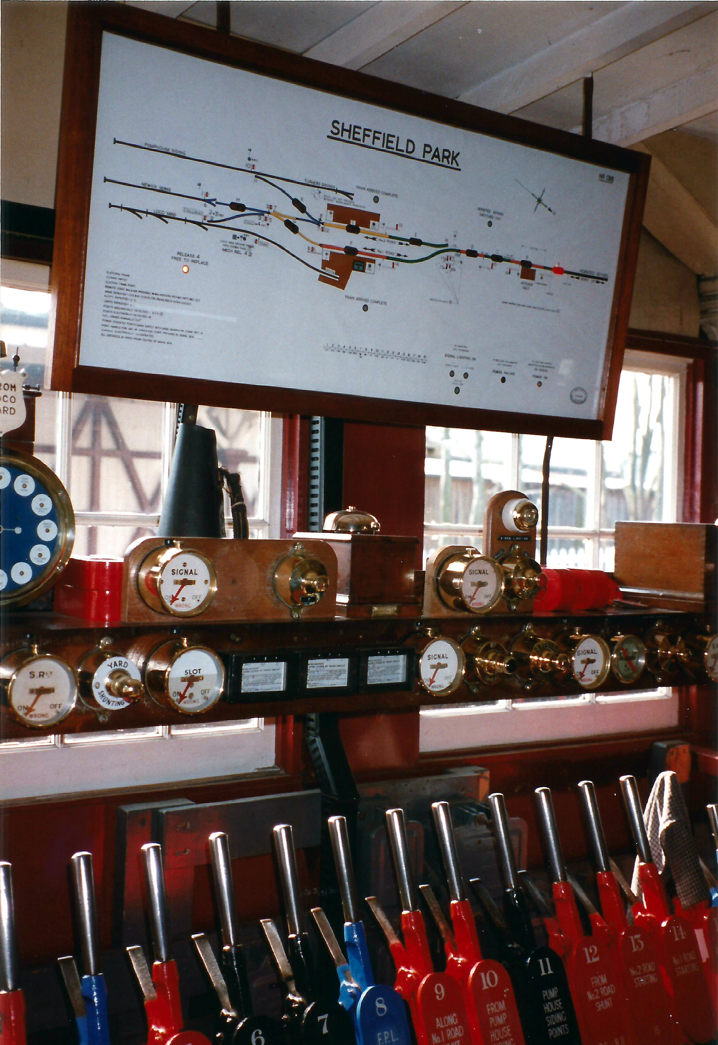 Interior of signal box at Sheffield Park station on the Bluebell Line